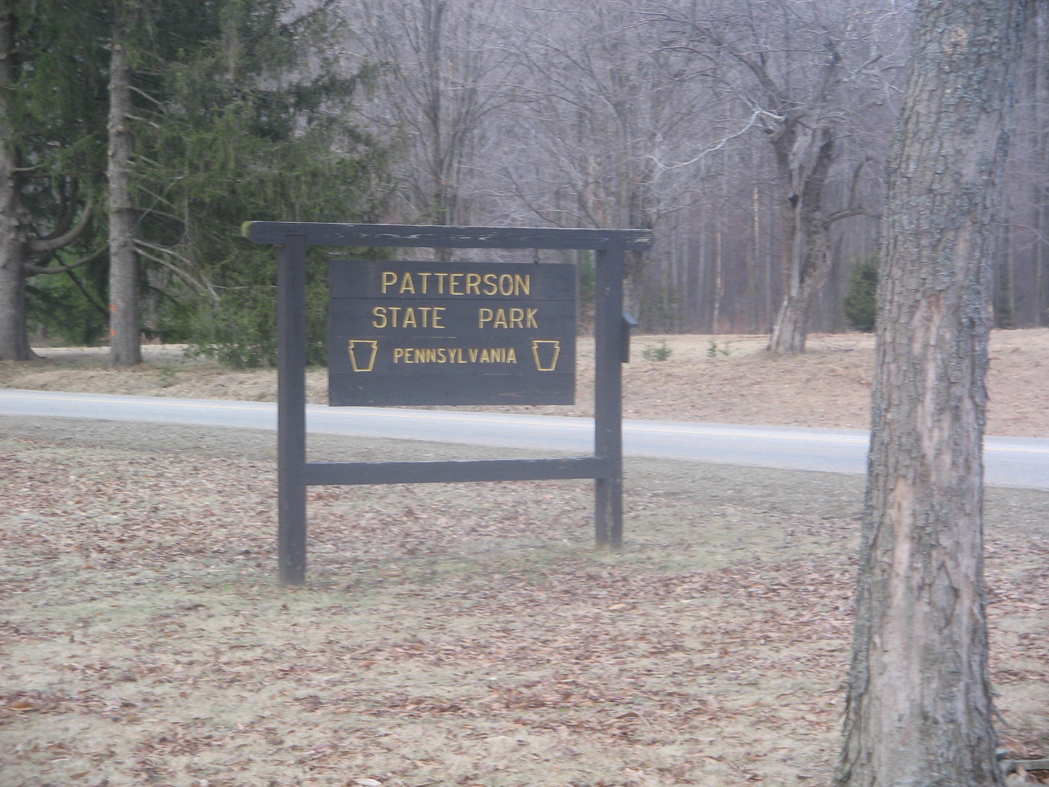 Sign at Patterson State Park, Potter County, Pennsylvania, USA. Pennsylvania Route 44 is the road.